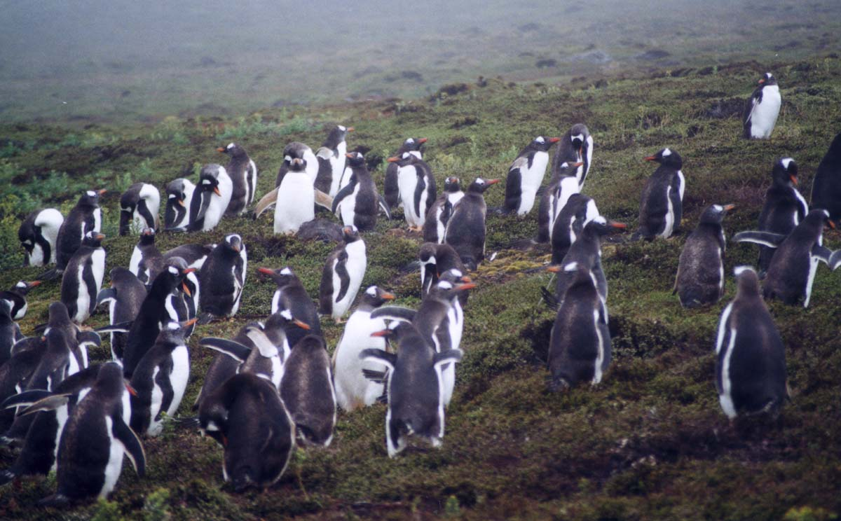 Photo of Pygoscelis papua (gentoo penguin) group on Carcass Island, Falkland Islands